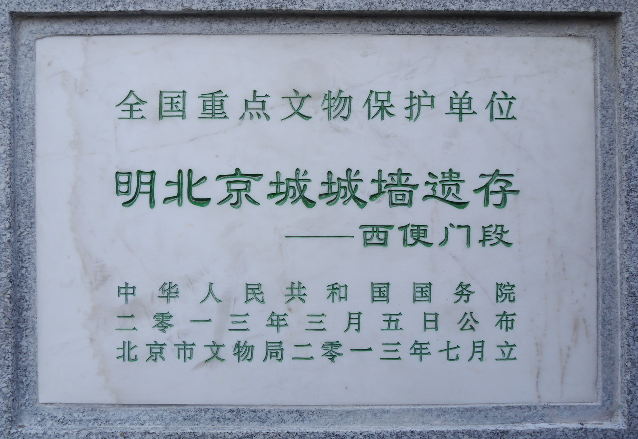 Xibianmen section of Beijing City Wall of Ming Dynasty